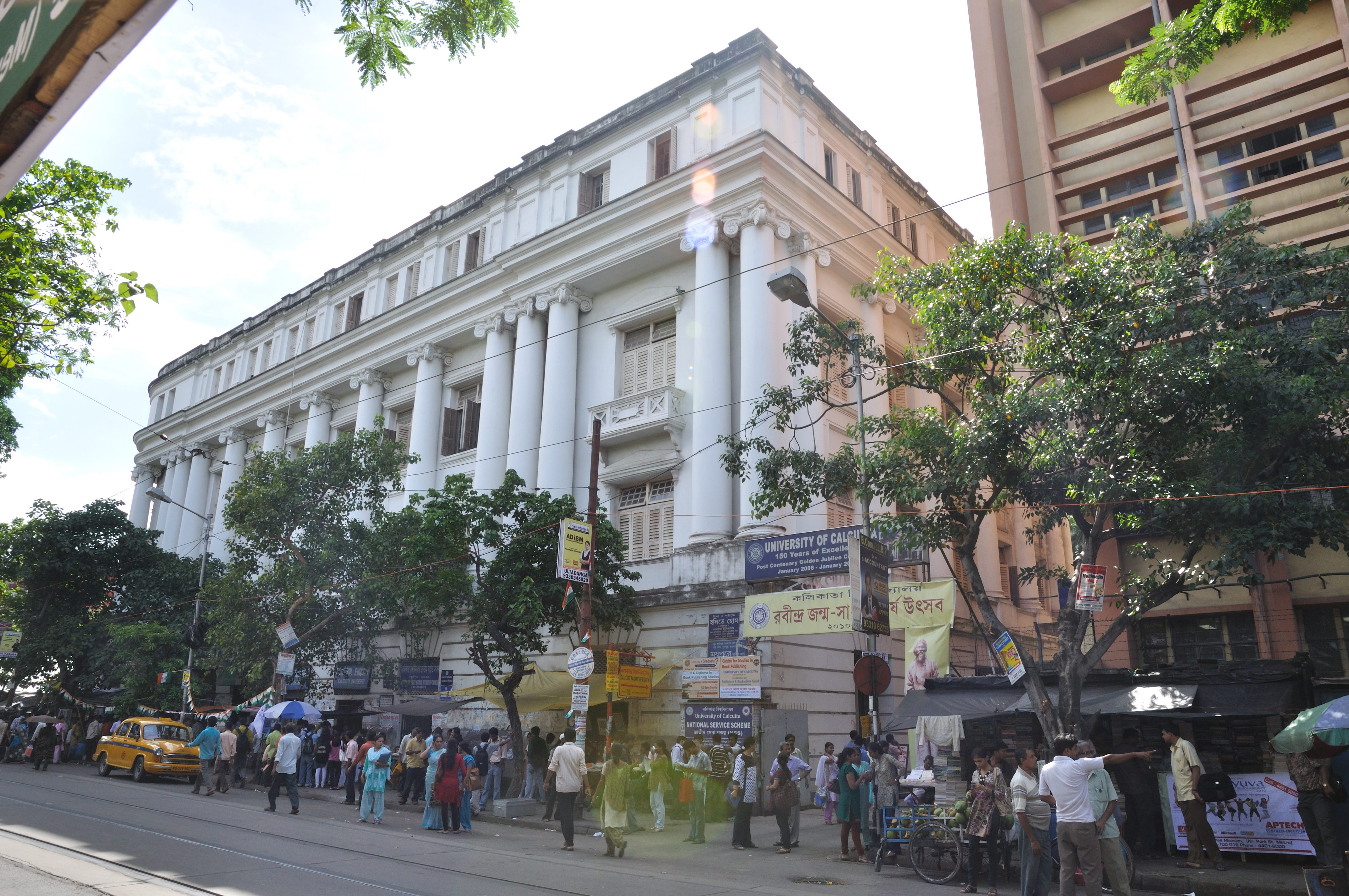 The University of Calcutta (also known as Calcutta University) is a public university located in the city of Kolkata (previously Calcutta), India.